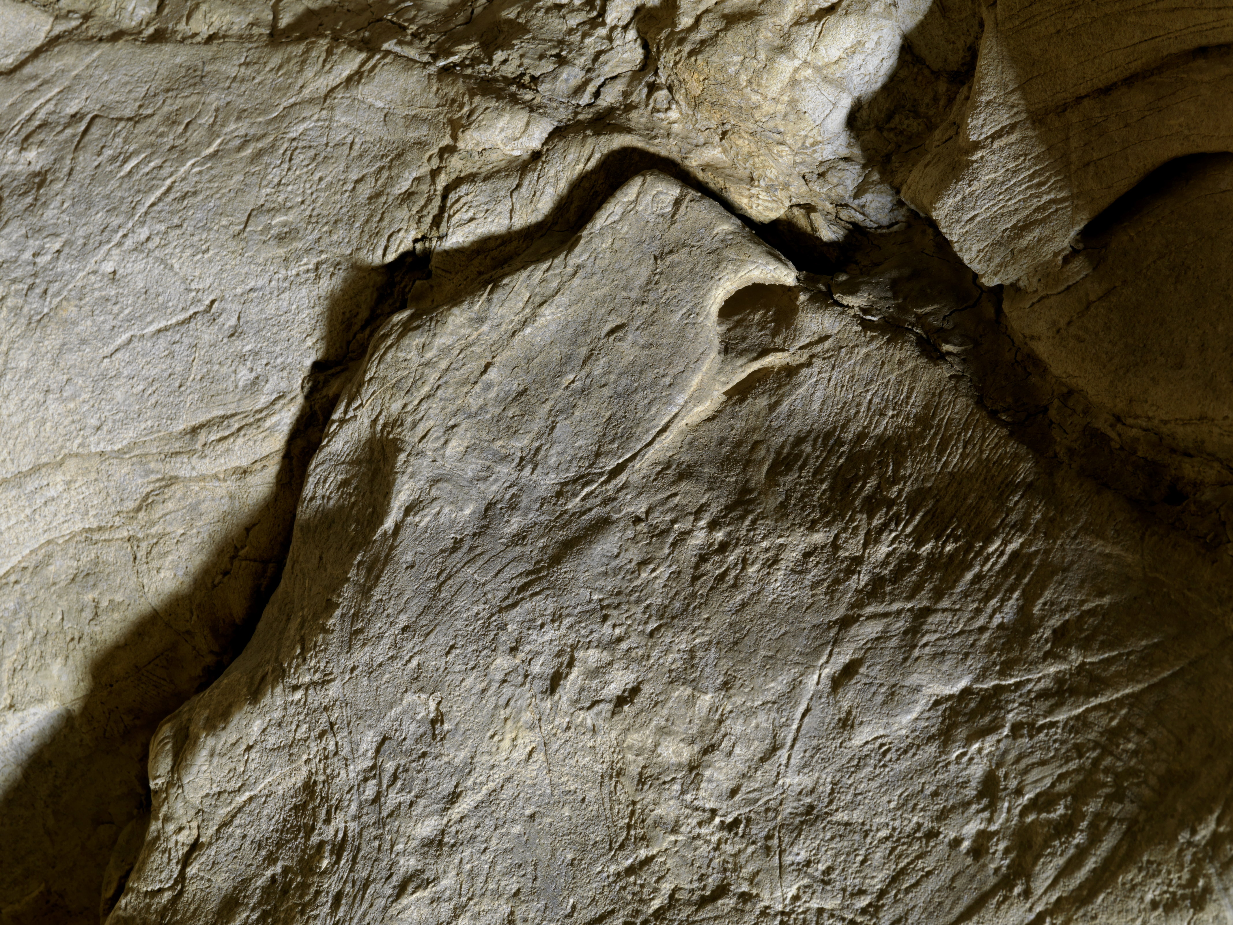 Taking advantage of the shape of the rock, the Paleolithic artist recorded the eye and the beak of a bird.